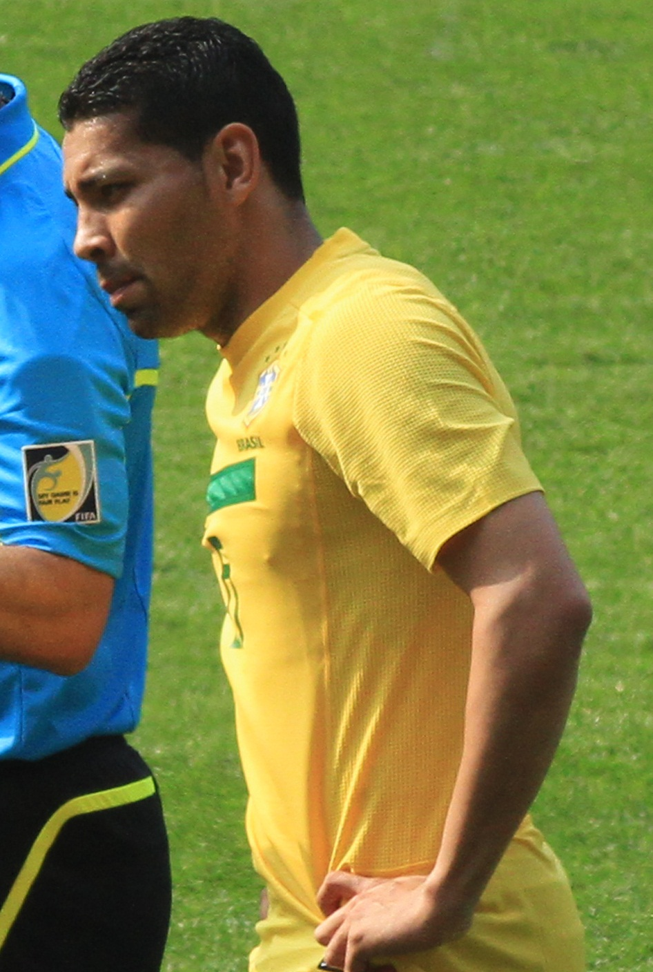 Wait for the whistle lads - Neymar and Andre Santos